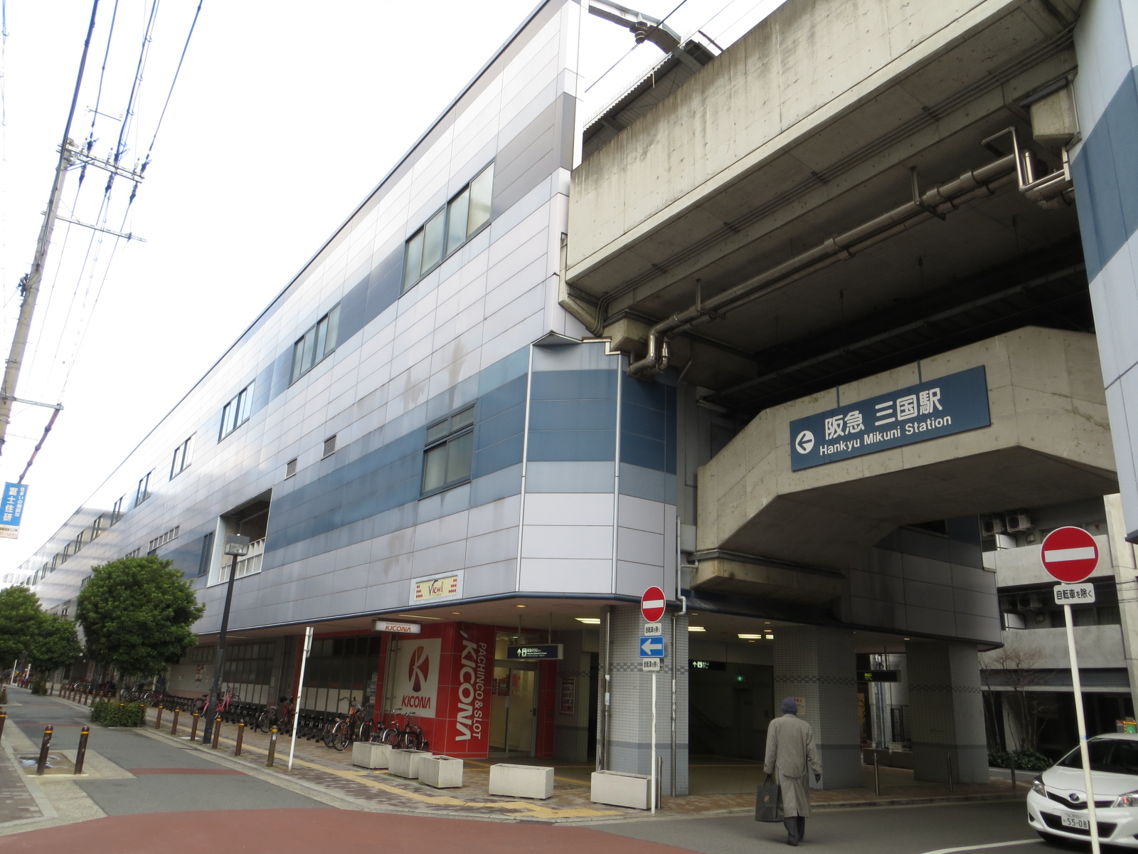 South Gate from Mikuni Station (Osaka) (HK41).